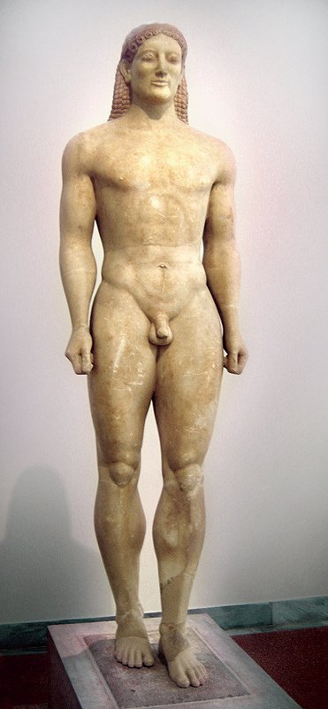 The Kroisos Kouros, attic funerary kouros in Parian marble, found in Anavyssos (Greece), dating from circa 530 BC, now exhibited at the National Archaeological Museum of Athens.